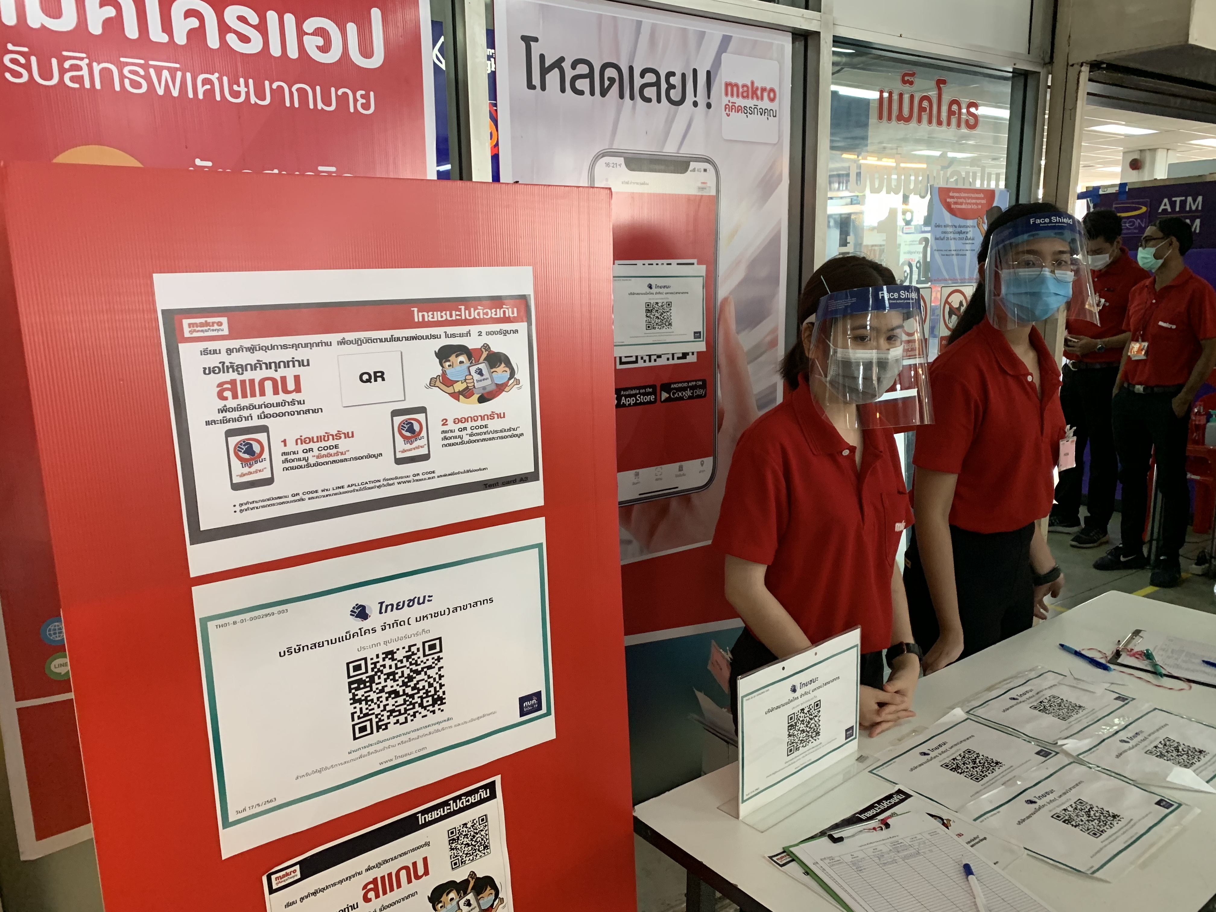 A supermarket in Bangkok requires customers to scan a QR code prior to entering the place. The staffs are also wearing a face shield. These are some of the policies dealing with COVID-19 in Bangkok, Thailand.